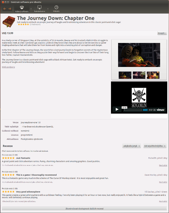 Preview of an app description in Ubuntu 12.04